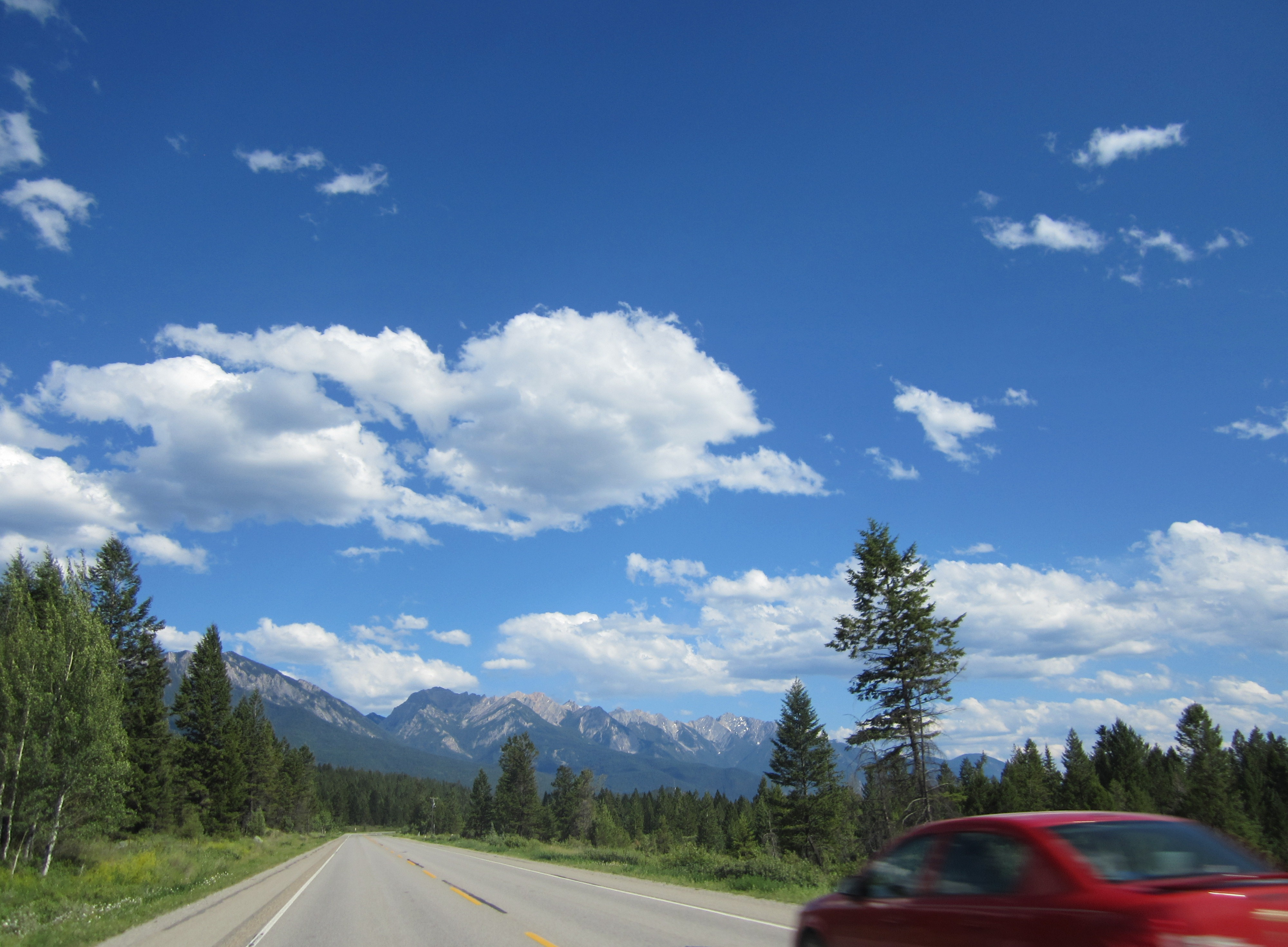 Looking back on Mountains